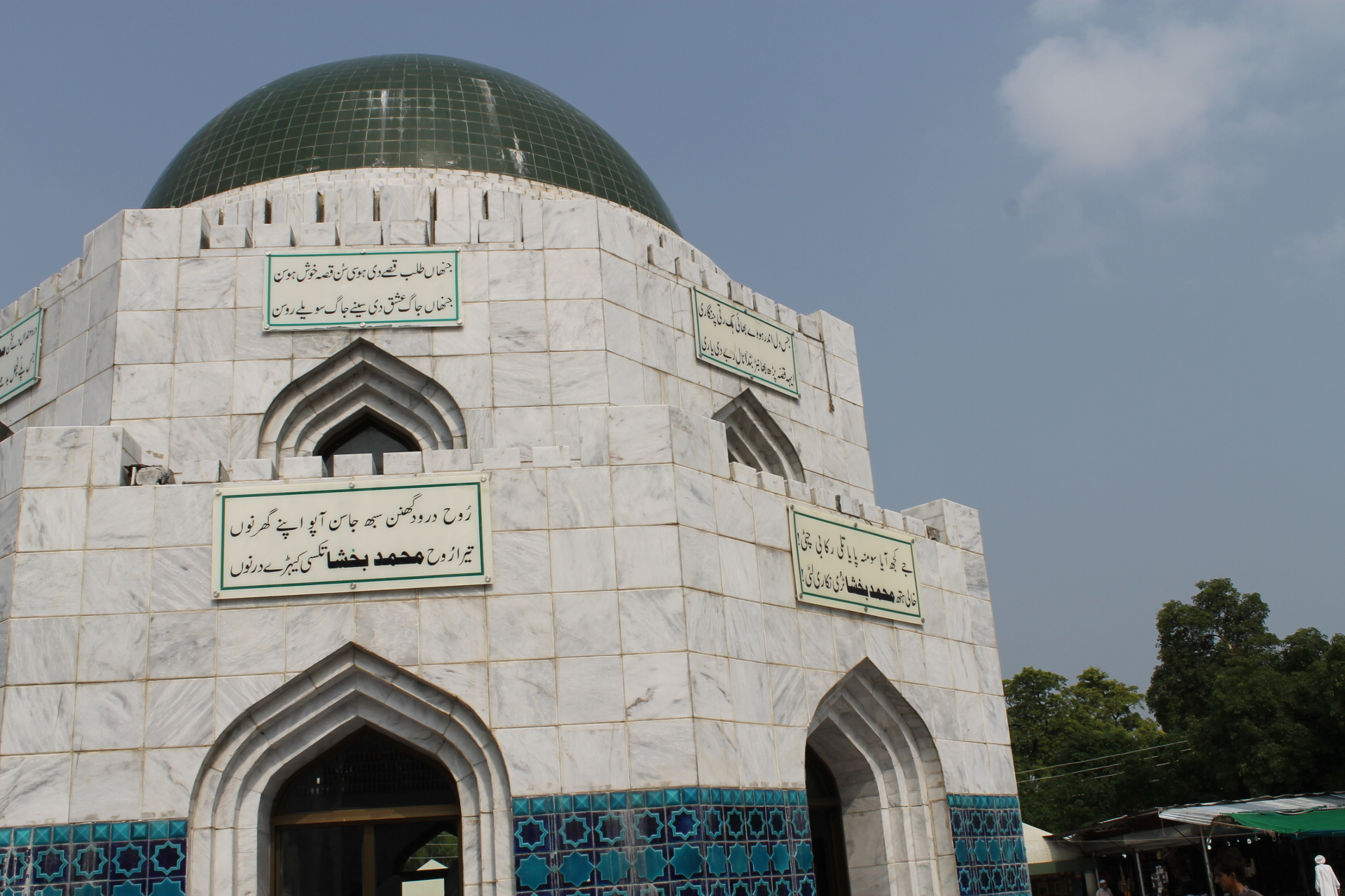 Shrine of Mian Muhammad Bakhsh, author of Punjabi epic fantasy Saiful Mulook, in Kharri Sharif, Mirpur, Pakistan